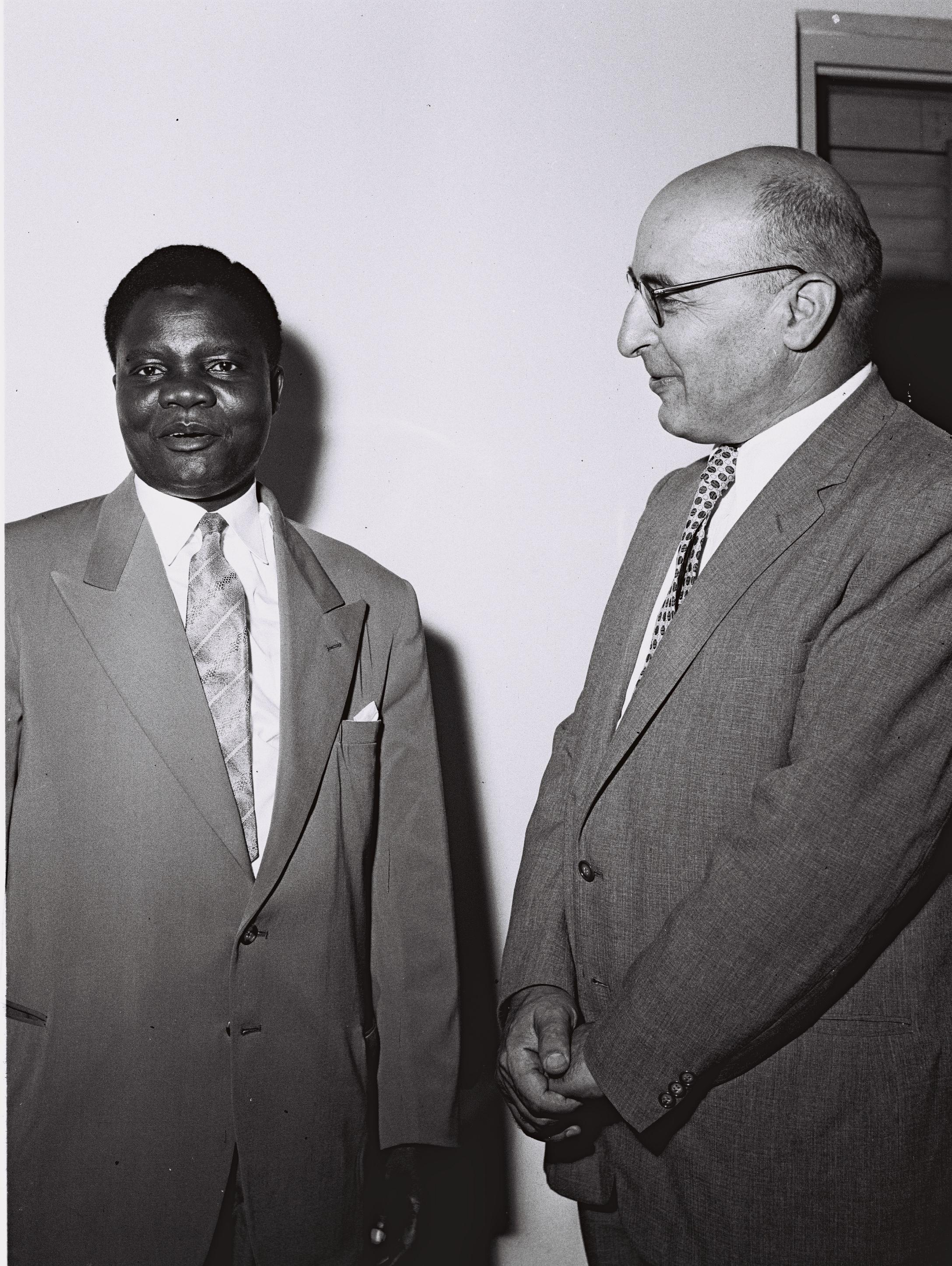 Israel Minister of Commerce and Industry meeting Chief JU Nwodo Nigerian Minister of Commerce